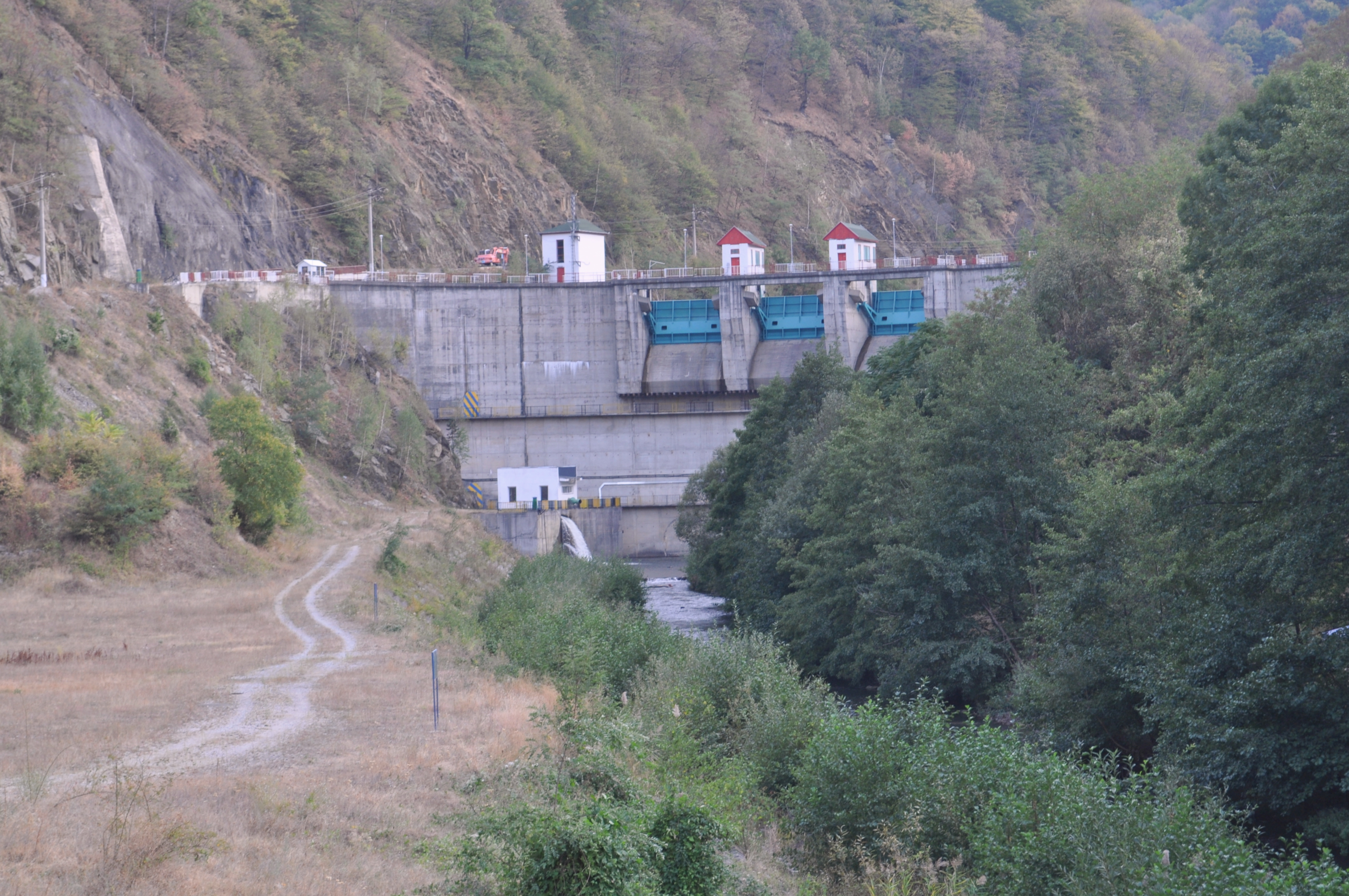 Obrejii de Căpâlna dam, Alba county, Romania